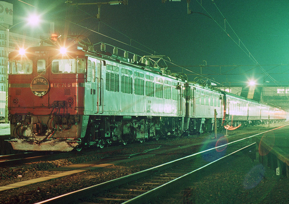 Electric locomotive EF71 6 and a class ED78 at the head of an Akebono overnight sleeper train